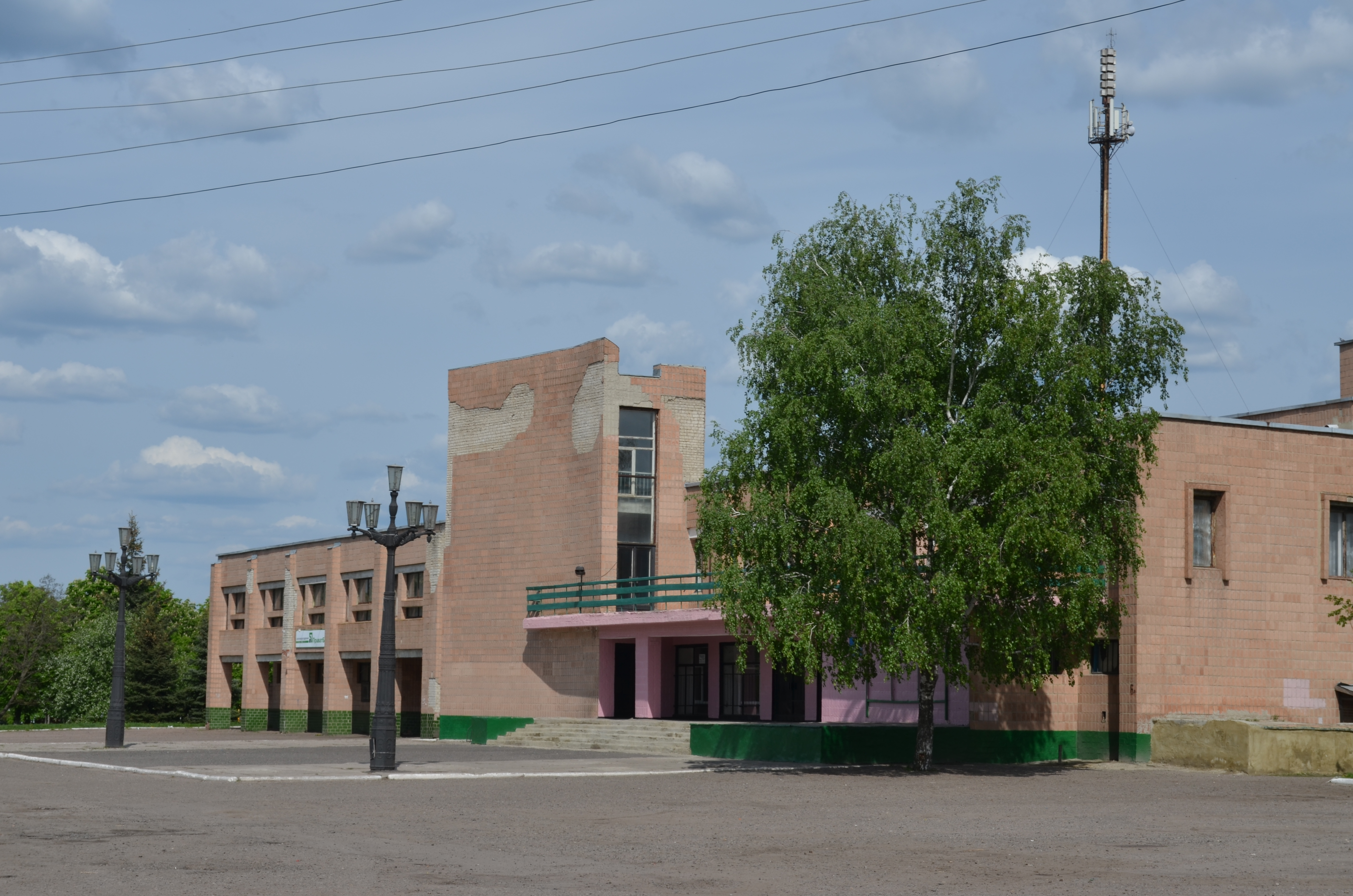 Shevchenkove district House of Culture